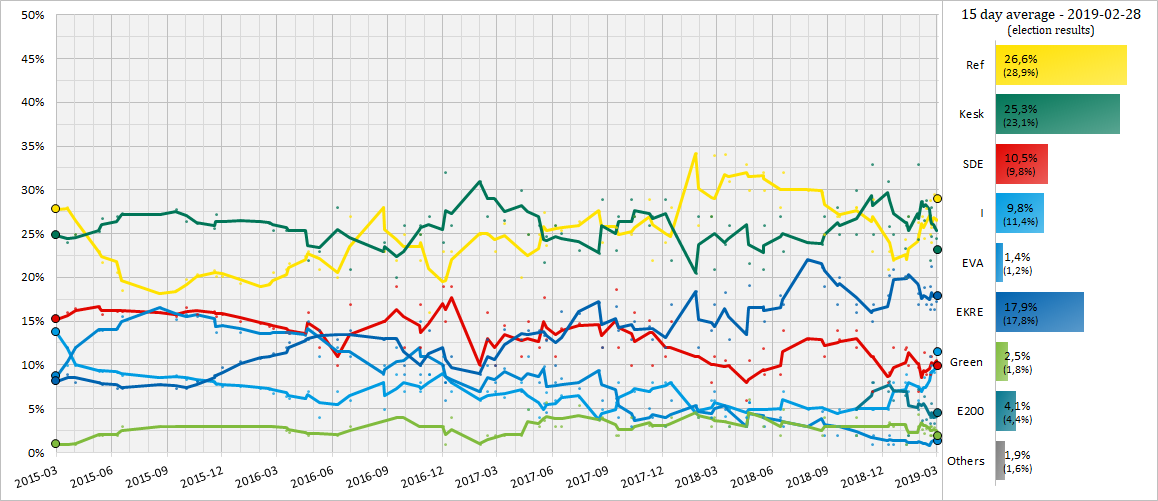 30 day average trend line (15 day average from 2019-02-01, 30 days before 2019 election) of Estonian polls towards the election in 2019, each line corresponds to a political party.